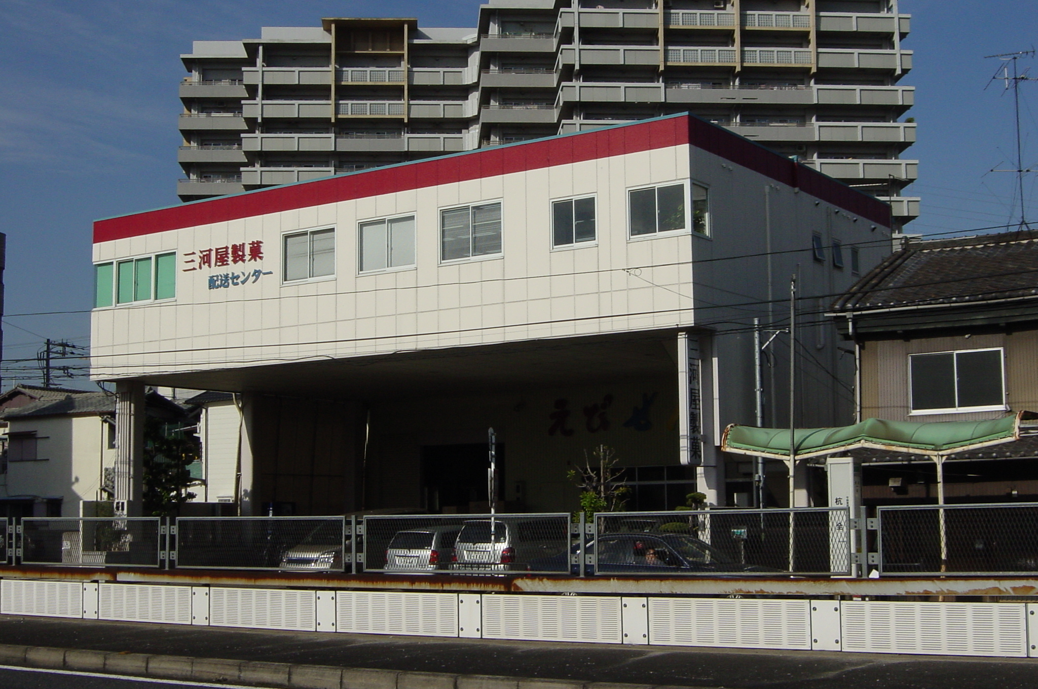 kumata mikawayaseika